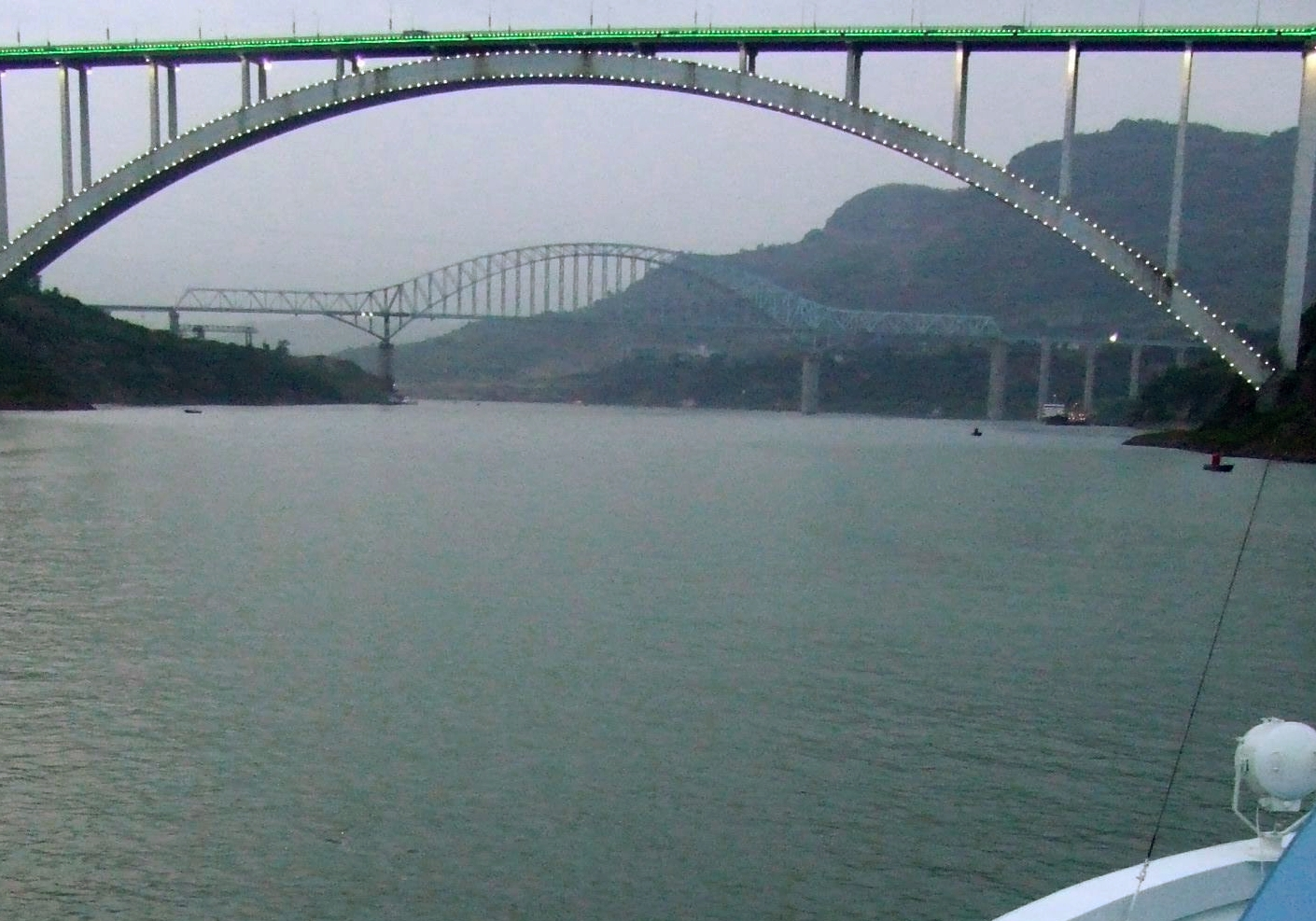 The Wanxian Bridge (foreground) and the Wanzhou Yangtze River Railway Bridge (background) over the Yangtze River in Wanzhou, Chongqing, China